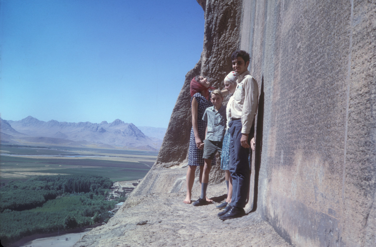 The picture shows my sister Glenda, my younger brother Ted, my sister Michelle and myself standing on the ledge below the Behistun inscription. It was taken by my father, David Kyrle Down. I am pressed back against the inscription because I suffer from vertigo and it took all my courage to make the climb.